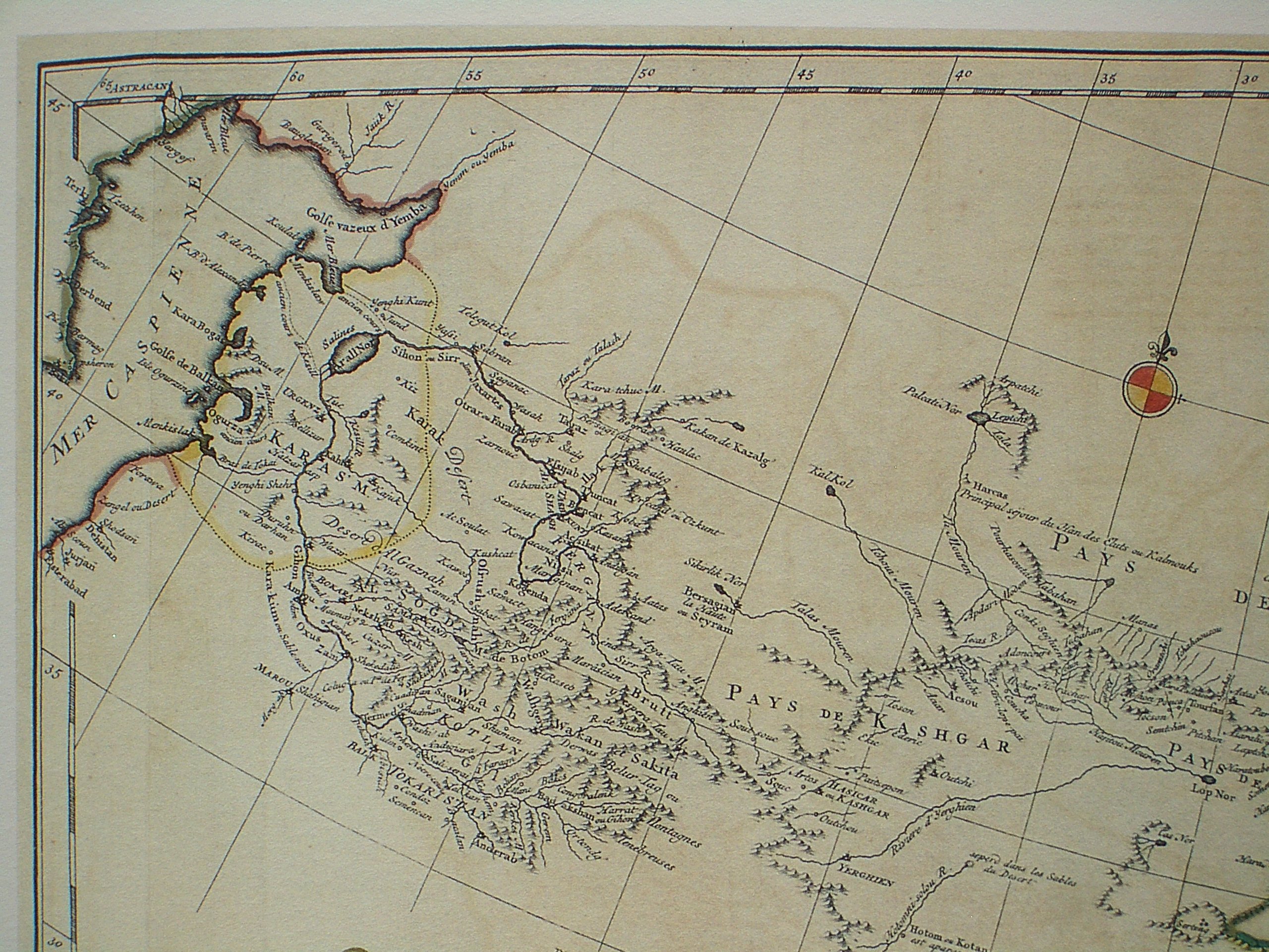 A most general map, including China, Chinese Tartary, and Tibet, based on individual maps of the Jesuit fathers. The map gives 1734 as the year, but the modern HKUST publishers say 1737